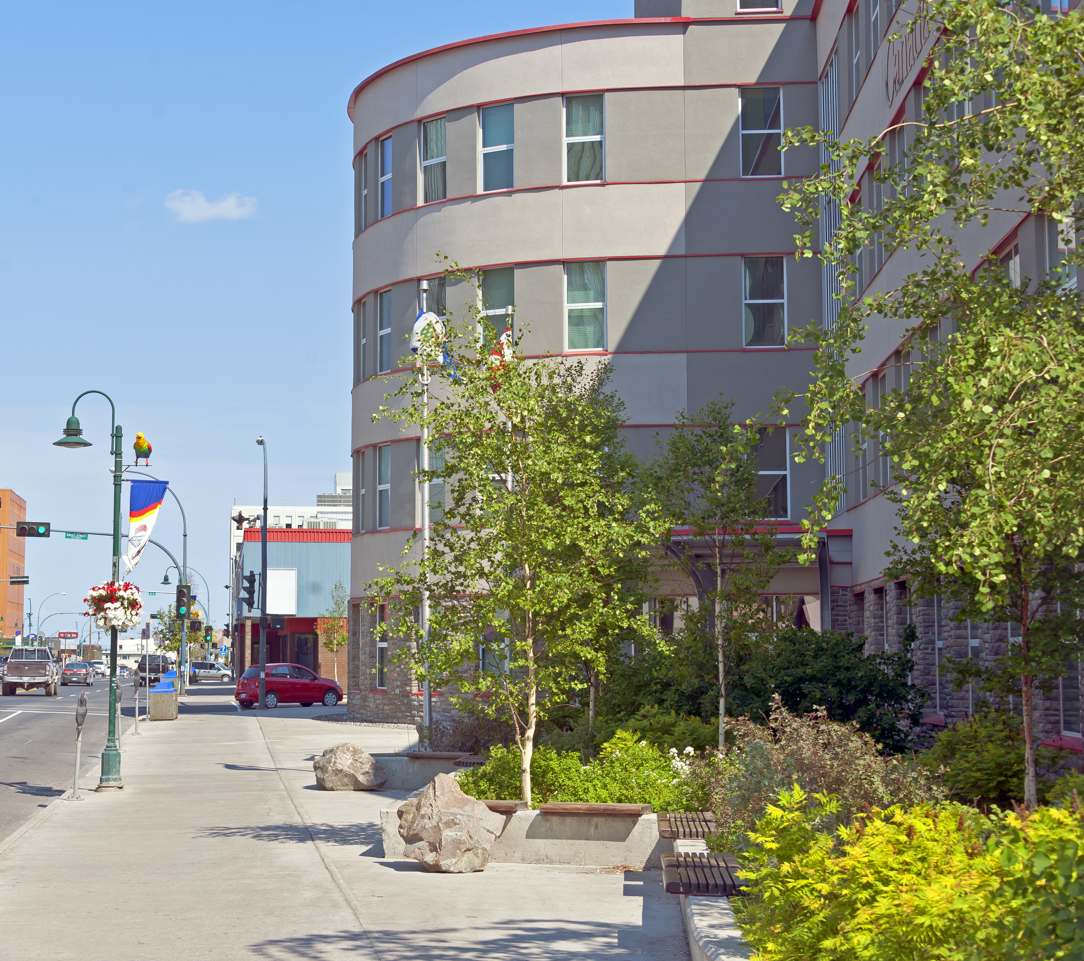 A view north along Franklin Avenue (50th Avenue) in Yellowknife, alongside the front of the Greenstone Building